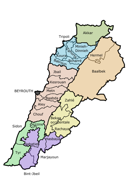 Maps of administrative divisions of district level between after 2003, in French. Governorates in uppercase, districts in lowercase. Based on Division_administrativa_del_Líbano.svg